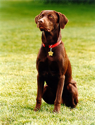 Original caption from This is a picture of me, Buddy. I arrived at the White House in December 1997. I am a chocolate Labrador retriever.